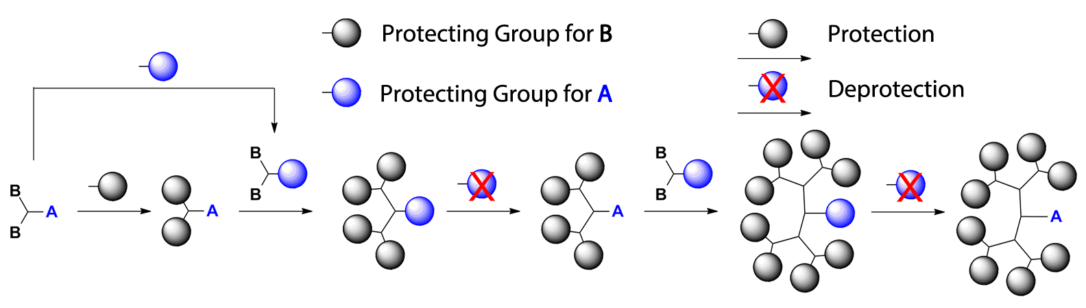 General scheme depicting convergent synthesis using orthogonal protecting groups.